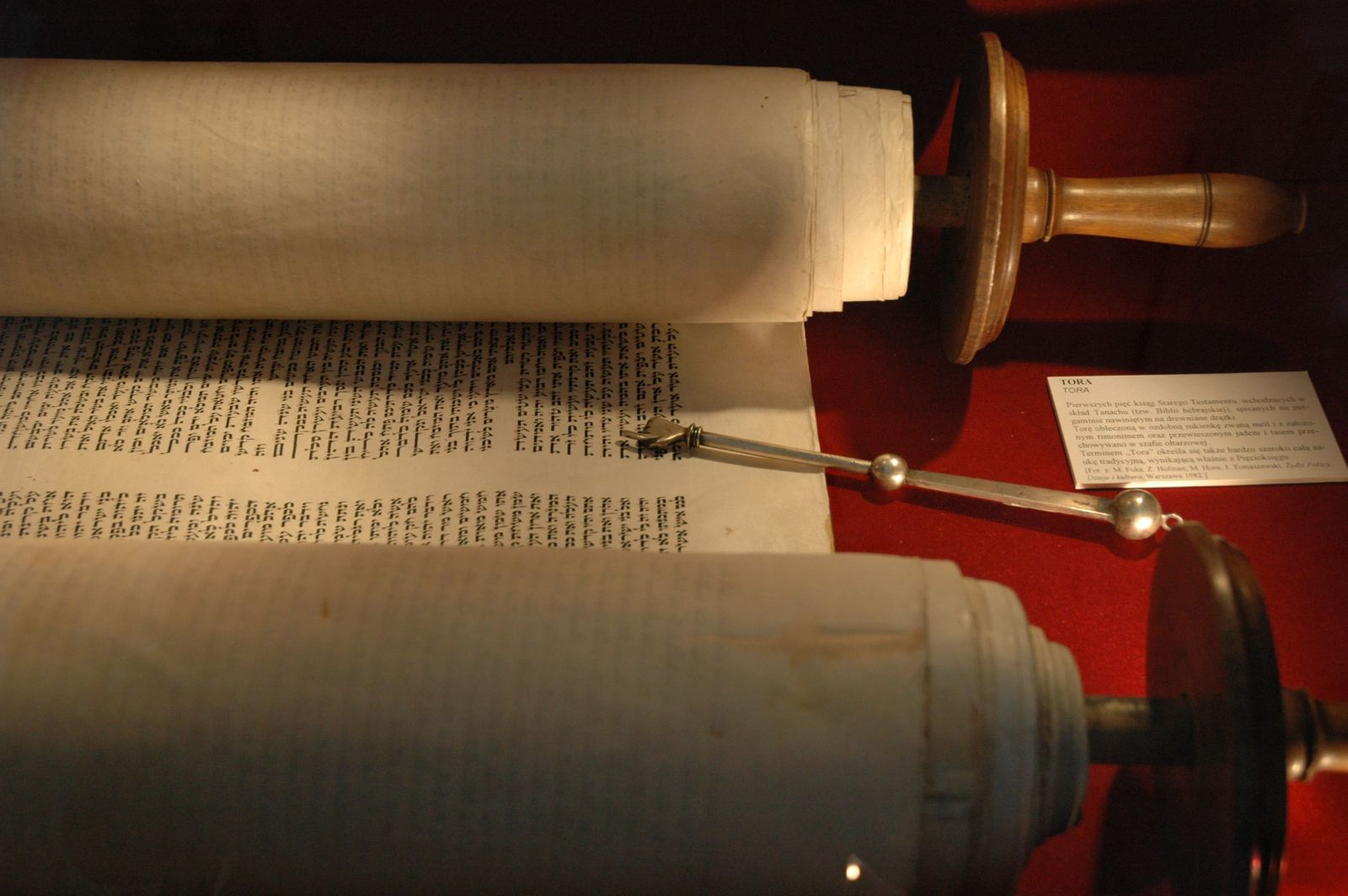 Torah and jad - exhibits in Big Synagogue Museum, Wlodawa - Poland.